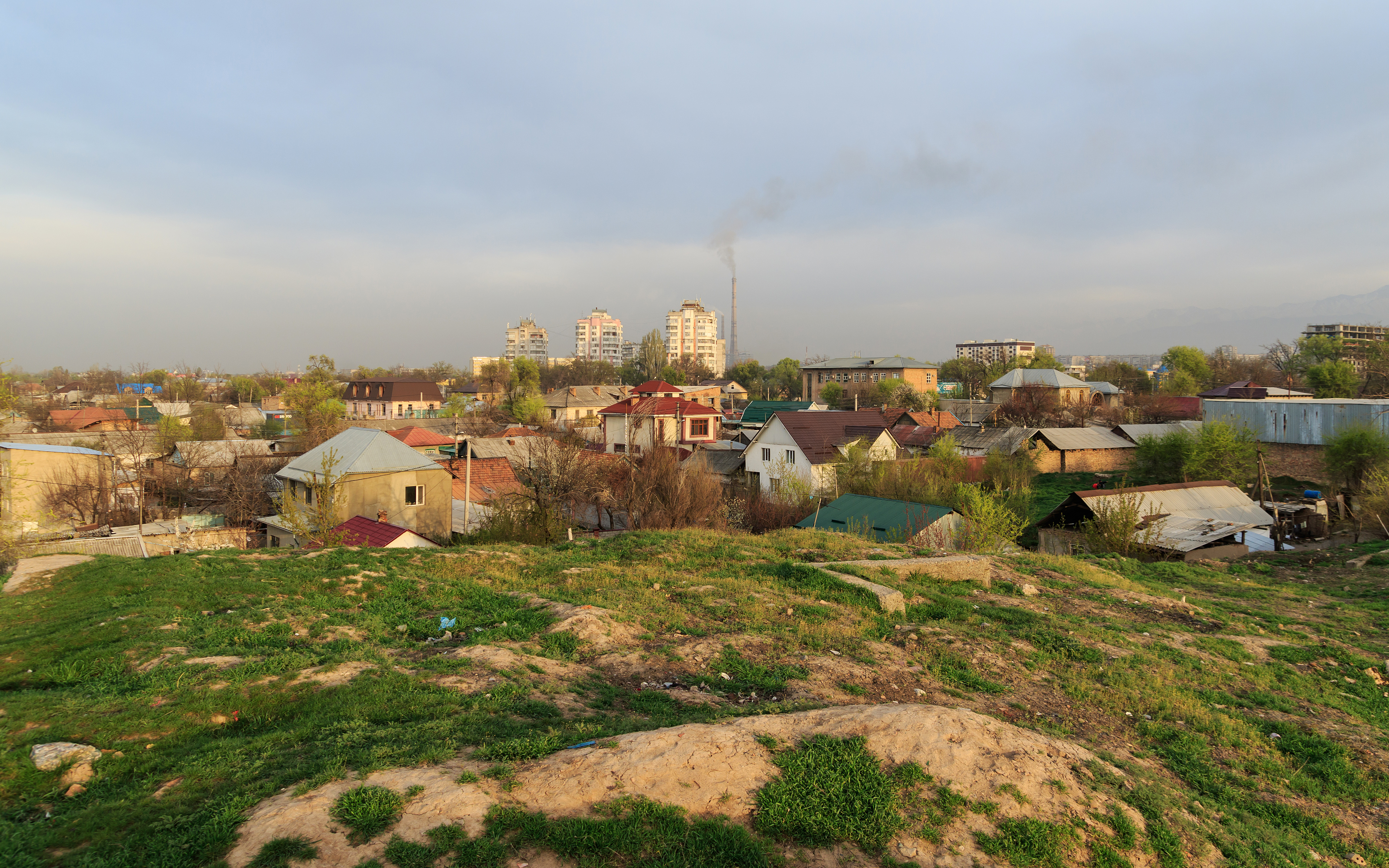 Kuznechnaya Hill (remains of former Pishpek Fortress) in Bishkek, Kyrgyzstan